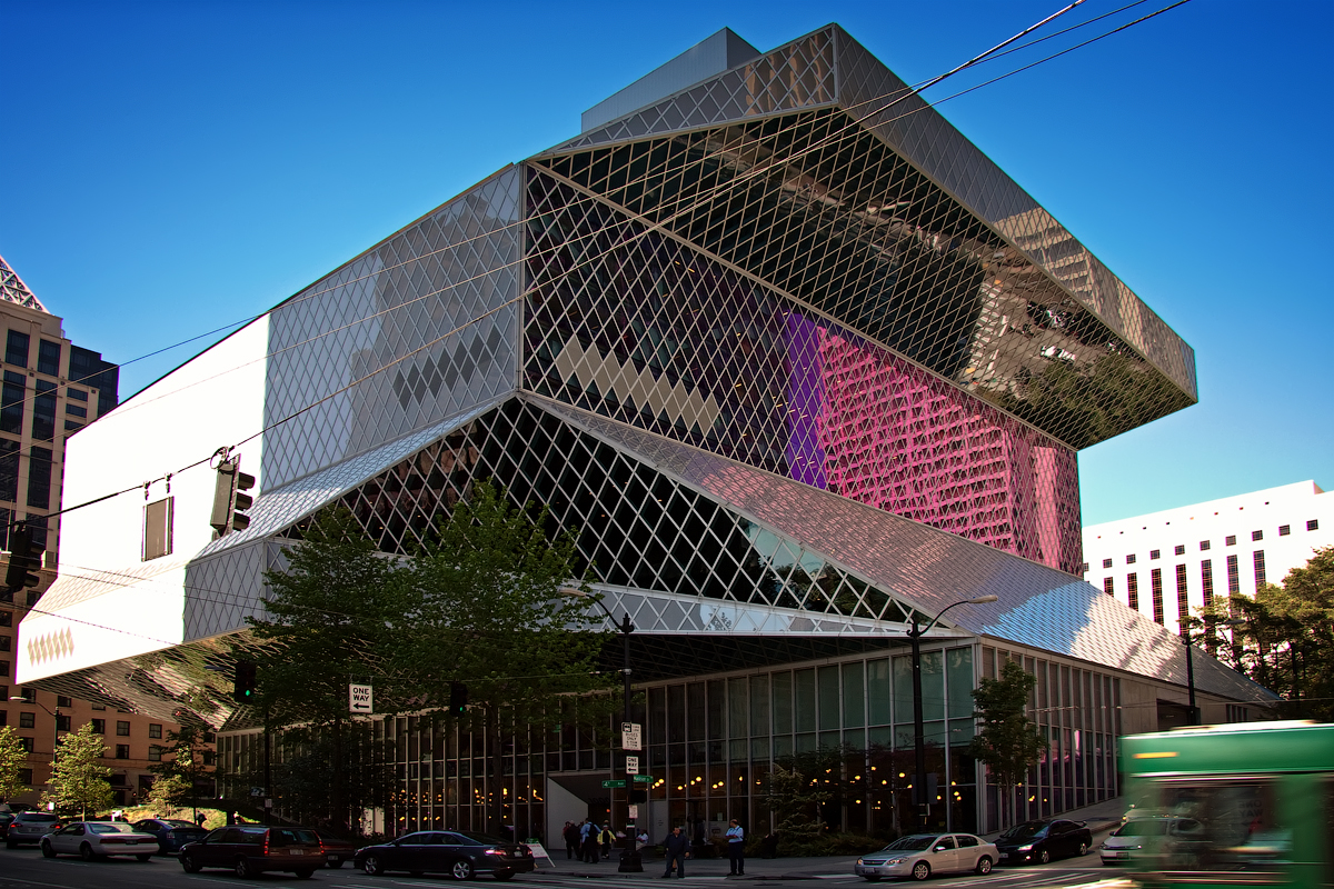 The Seattle Central Library is the flagship library of the Seattle Public Library system (SPL). Address: 1000 Fourth Ave. Seattle, WA 98104